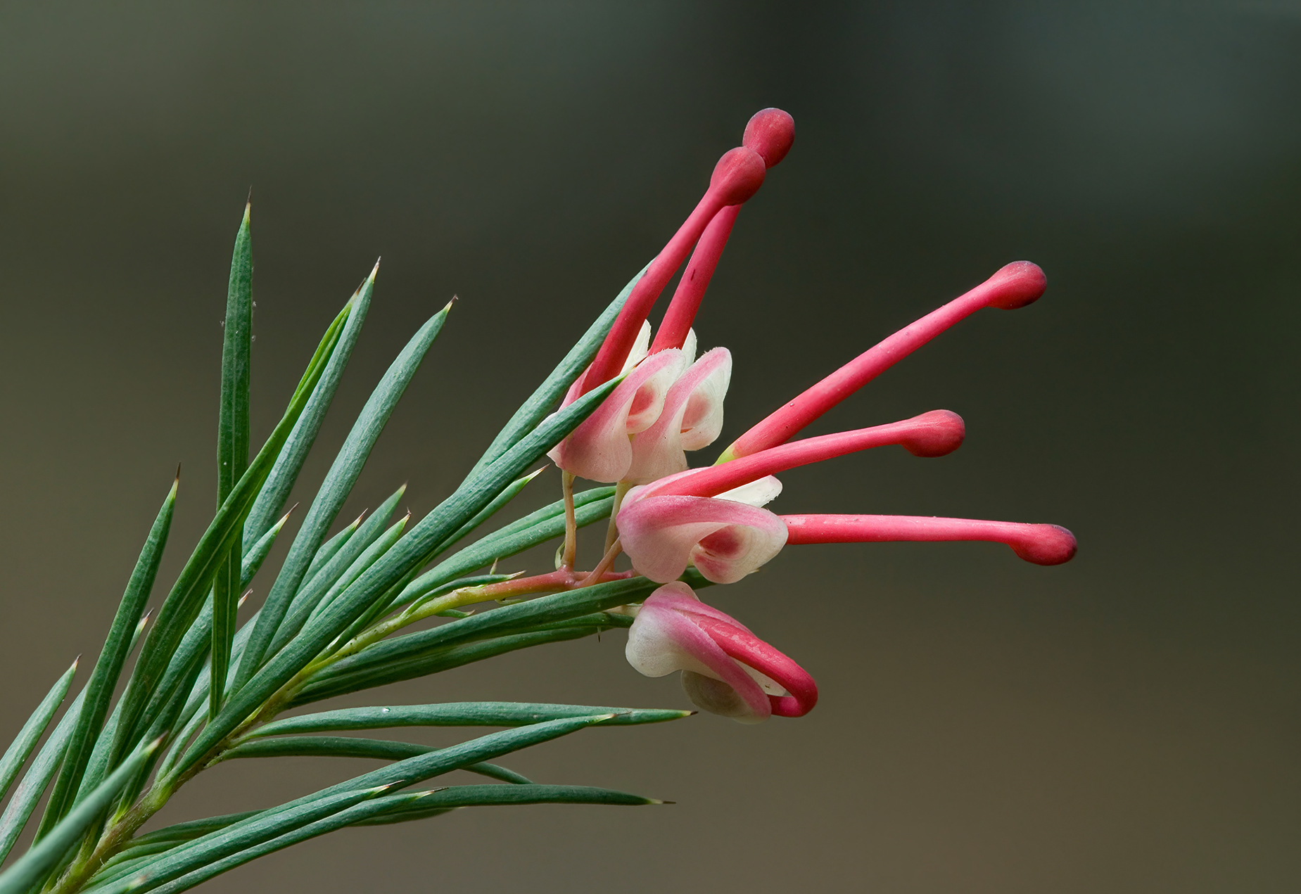 Grevillea rosmarinifolia Camera data Camera Canon EOS 400D Lens Tamron EF 180mm f3.5 1:1 Macro Flash Umbrella Above Left Focal length 180 mm Aperture f/9 Exposure time 1/25 s Sensivity ISO 200